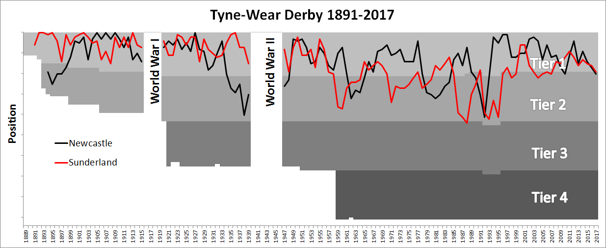 Side-by-side comparison of Newcastle's and Sunderland's final league positions 1891-2015